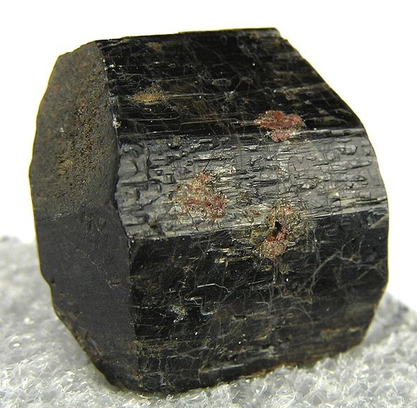 Edenite Locality: Bancroft, Bancroft District, Hastings County, Ontario, Canada (Locality at ) Size: 2.2 x 1.9 x 1.1 cm. Edenite (Sodium Calcium Magnesium Iron Aluminum Silicate Hydroxide) is a rare amphibole mineral (tremolite subgroup - it has an aluminum atom that is lacking in tremolite, which replaces it with an extra silicon). This is a very sharp floater crystal, with perfect form, from Canada.